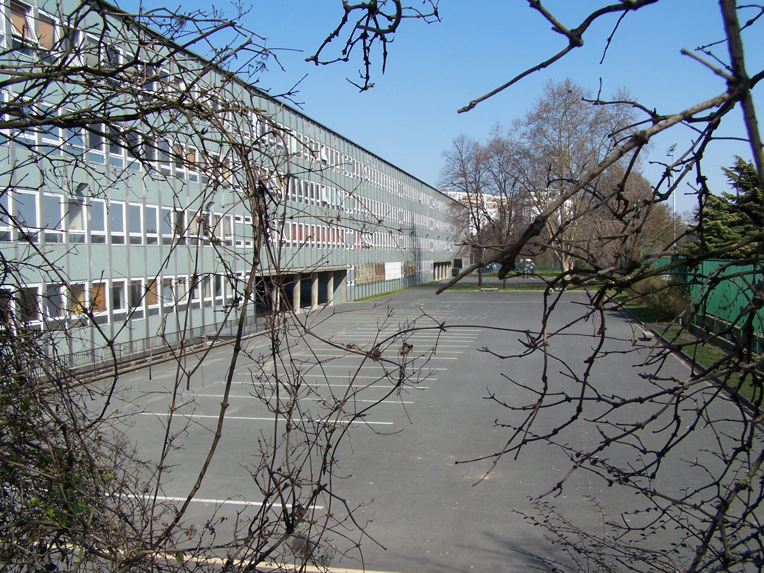 Vue de l'arrière du lycée Paul-Valéry depuis la rue du Général-Archinard